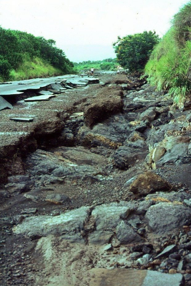 View of destructions at Bank boulevard after the first passage of Hyacinthe cyclon, Saint-Pierre, Réunion, France